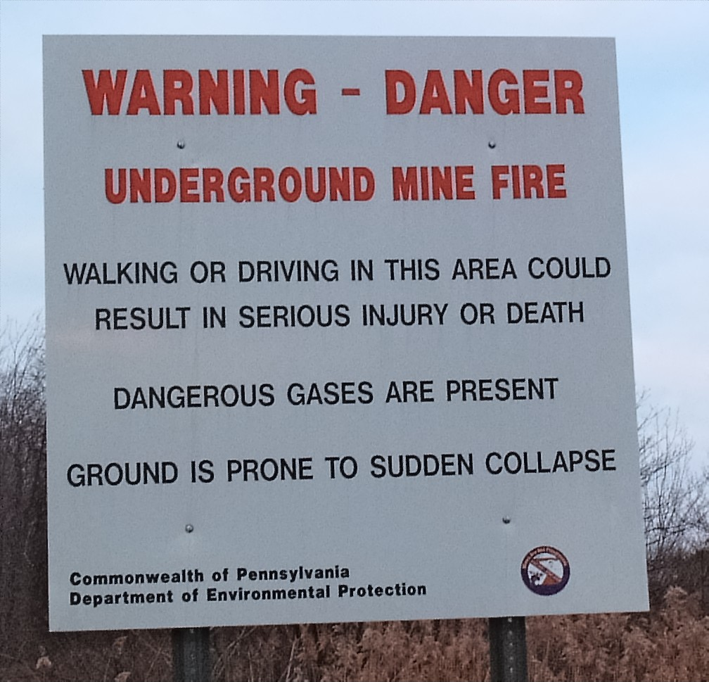 Higher resolution image of the sign at the beginning of Route 61.